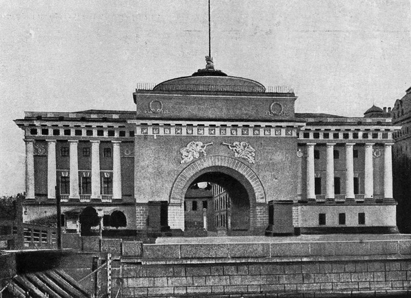 View of the Admiralty pier and Admiralty in 1879-1914 years